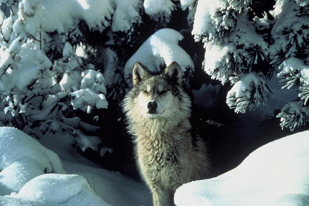 Gray wolf in the Northern Rocky Mountains